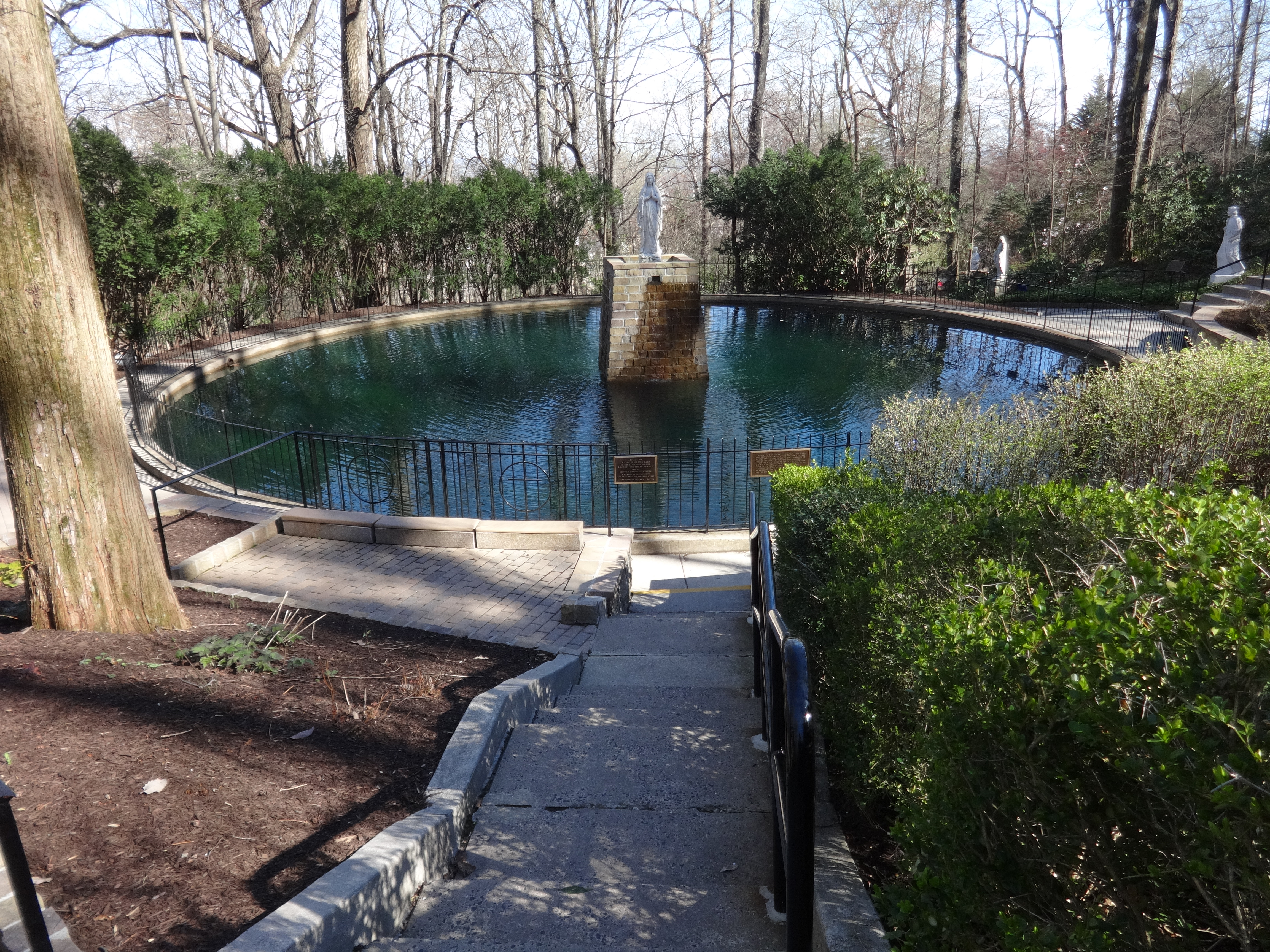 National Shrine Grotto of Our Lady of Lourdes, Mount St. Mary's University, Emmitsburg, Frederick County, Maryland.